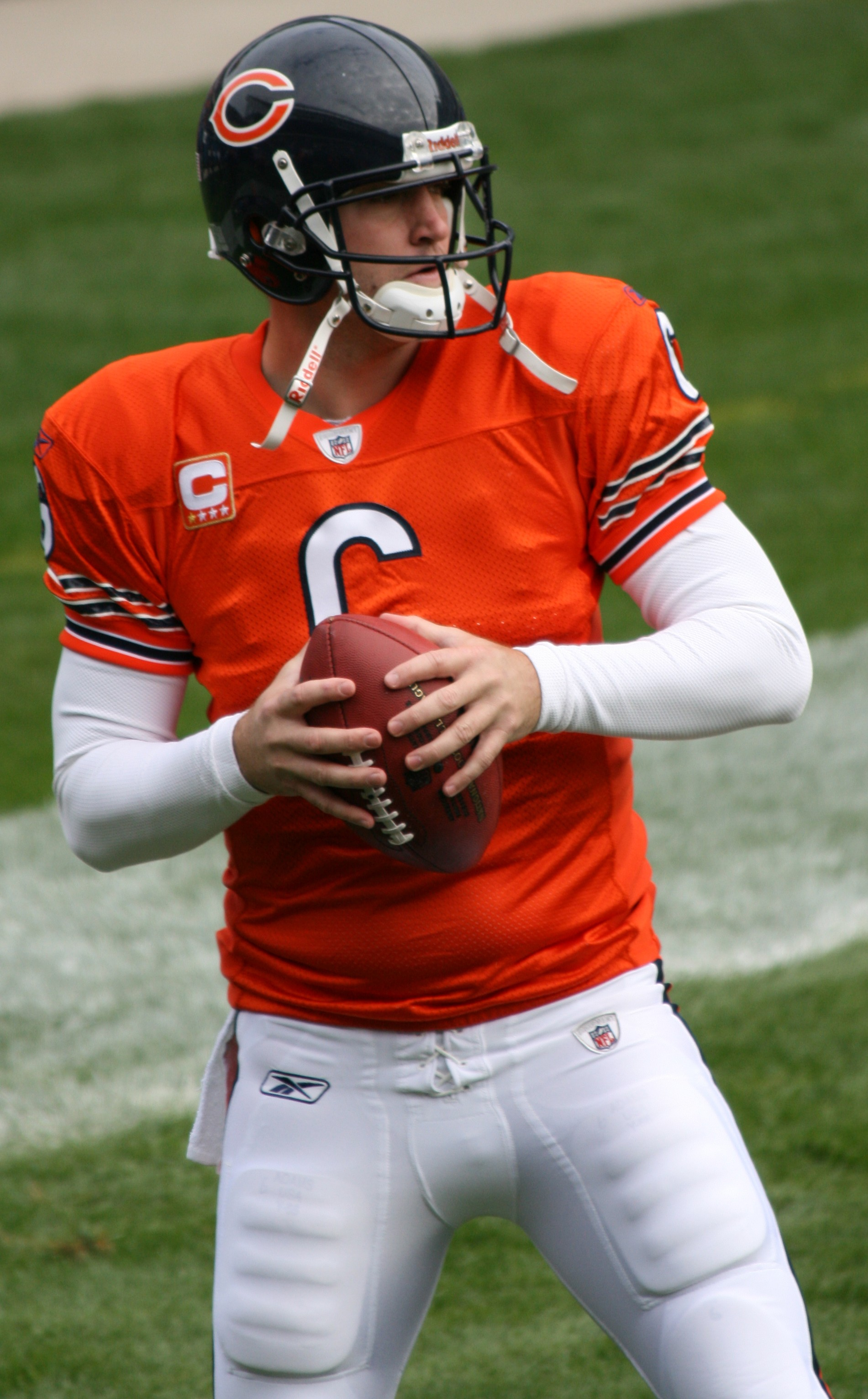 Jay Cutler of the Chicago Bears warming up before a game.